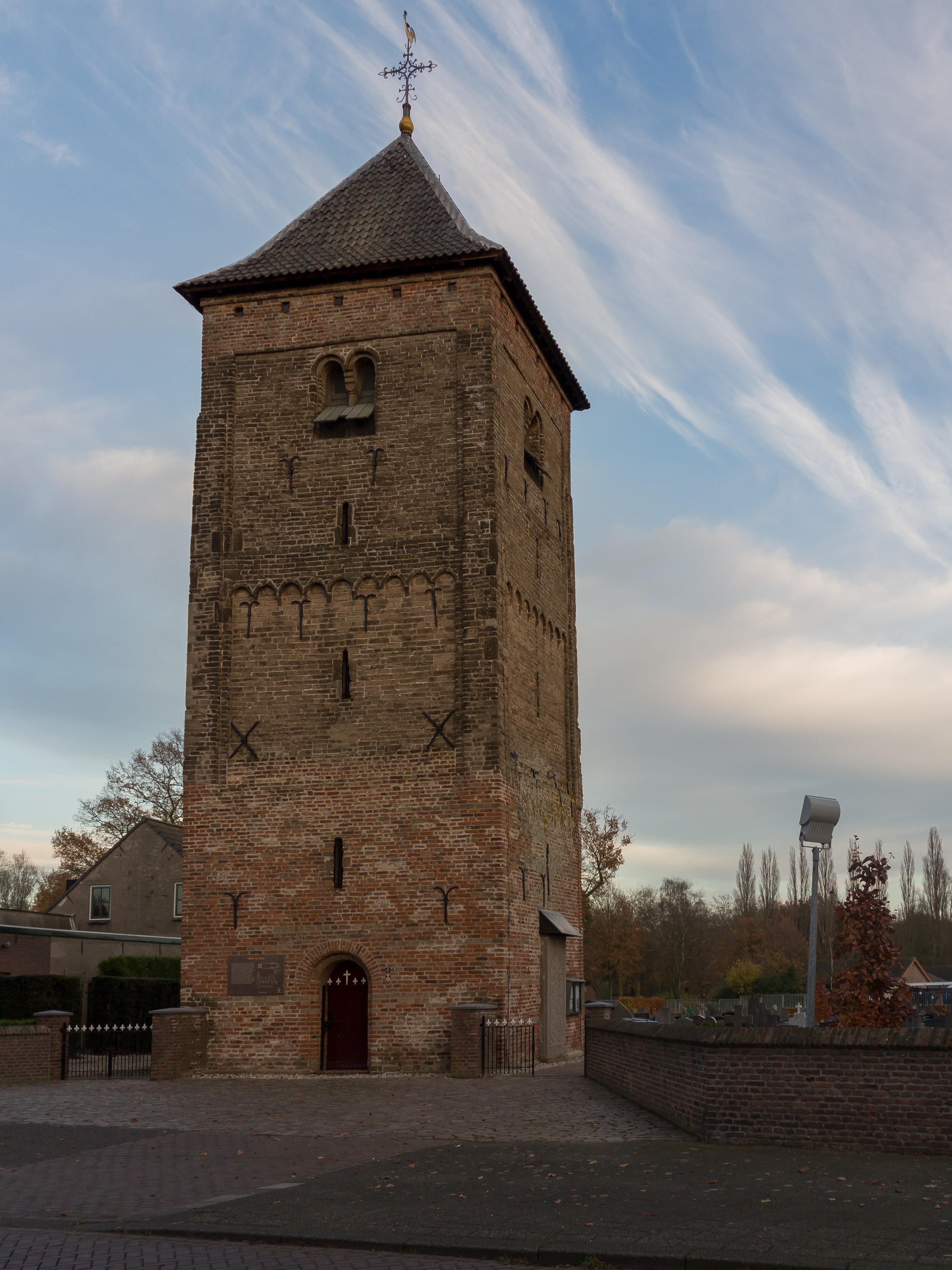 Ewijk, church tower